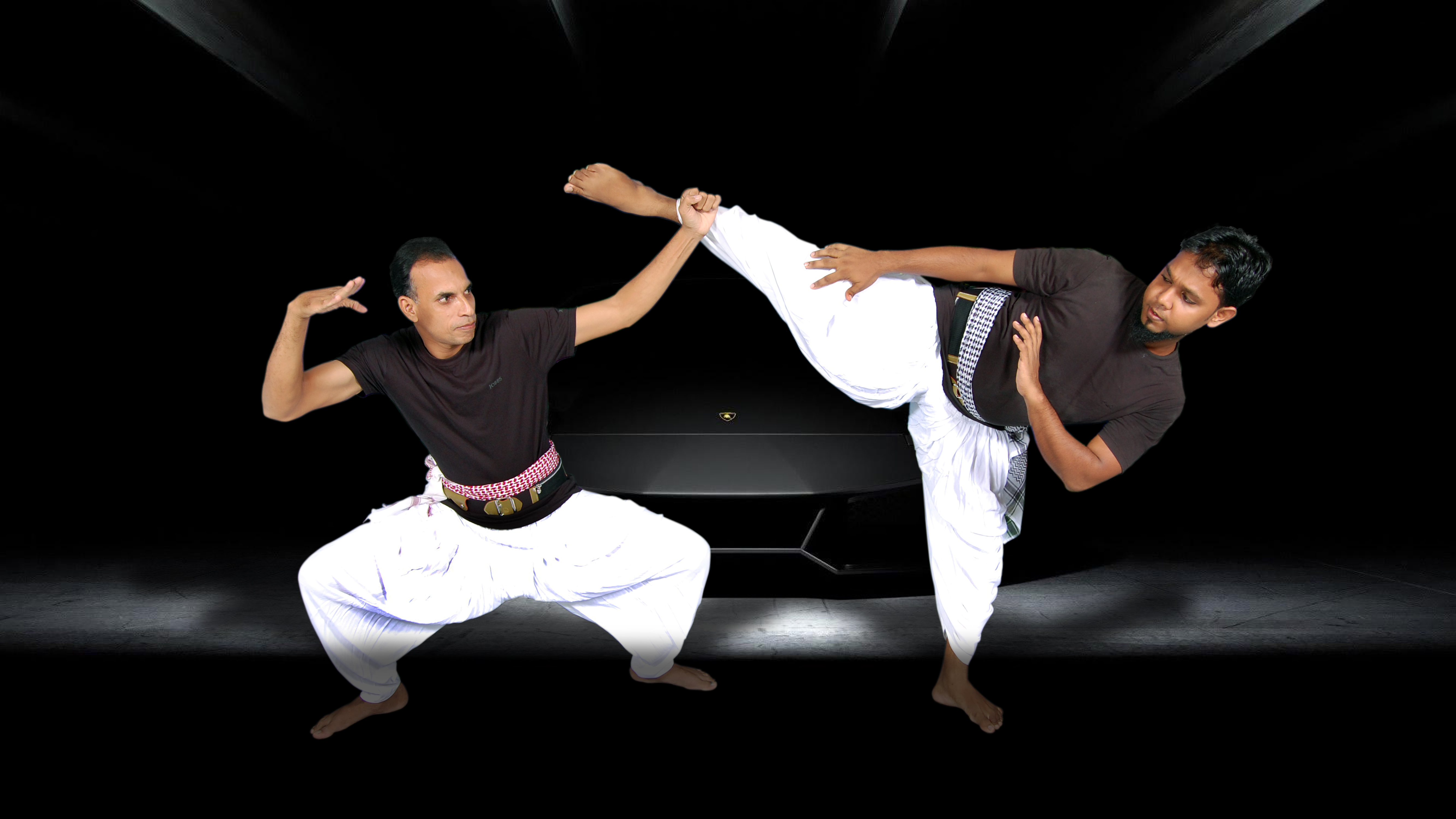 The Traditional Martial Arts of Srilankan Muslims.